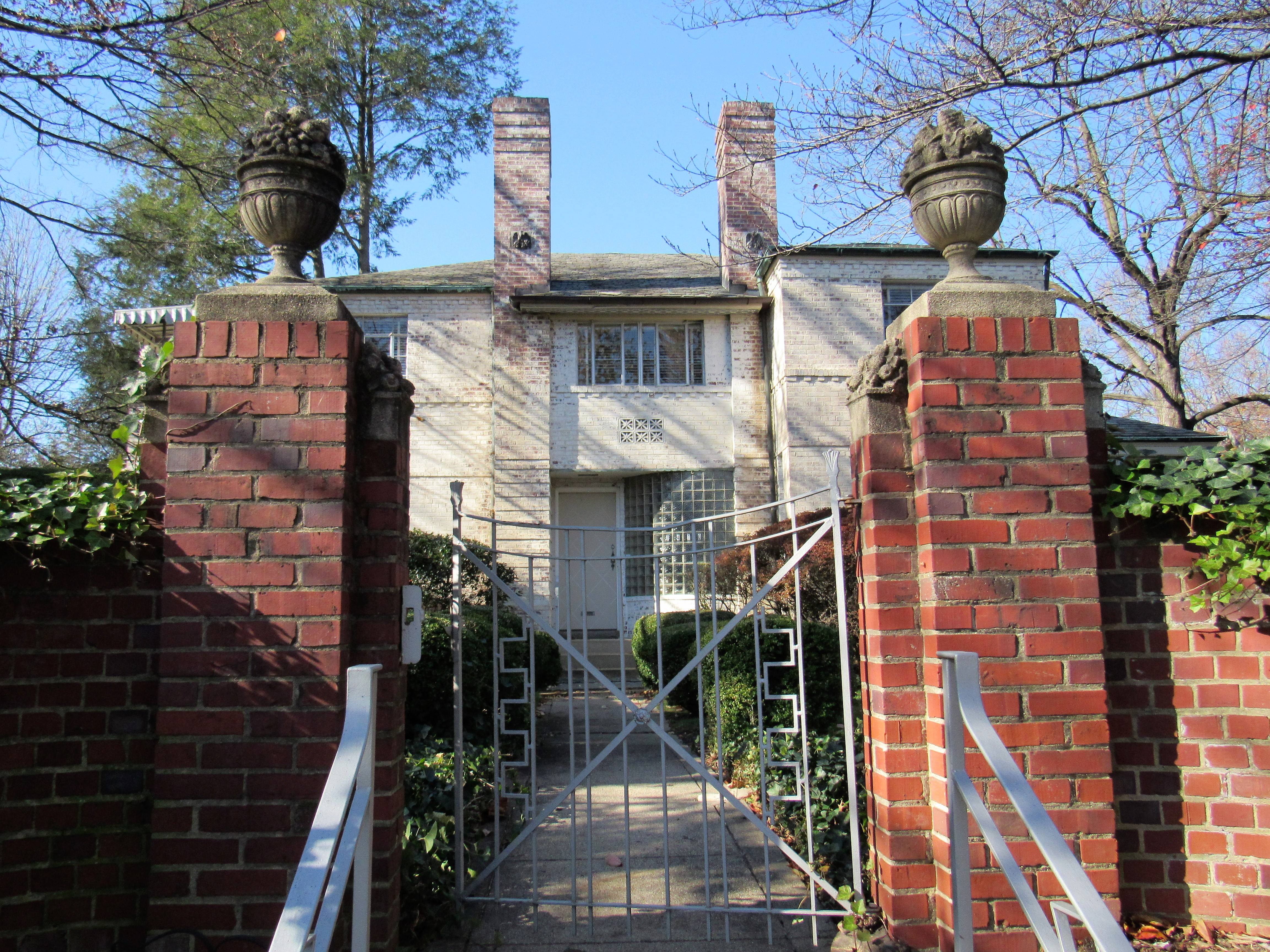 The Mihran Mesrobian House on Connecticut Avenue in Chevy Chase, Maryland.